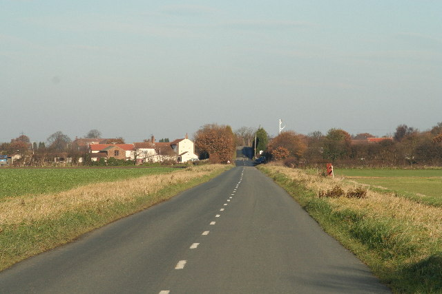 Great Heck, Heck Lane. In the early 1800s there was a horse drawn railway down the right hand side of the road, it was used to transport stone from Wentbridge stone quarries to Heck canal basin, and then to different parts of the country. The rails were wooden. The white flagpole can be seen in the distance, that is Heck Basin. It is now Heck Boating Club